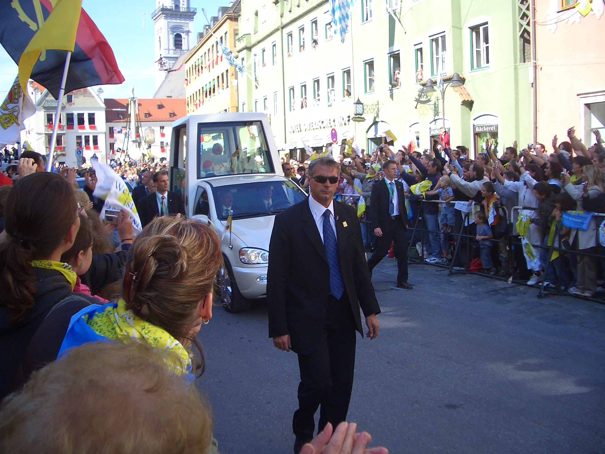 Pope Benedikt XVI. in Freising (Germany).